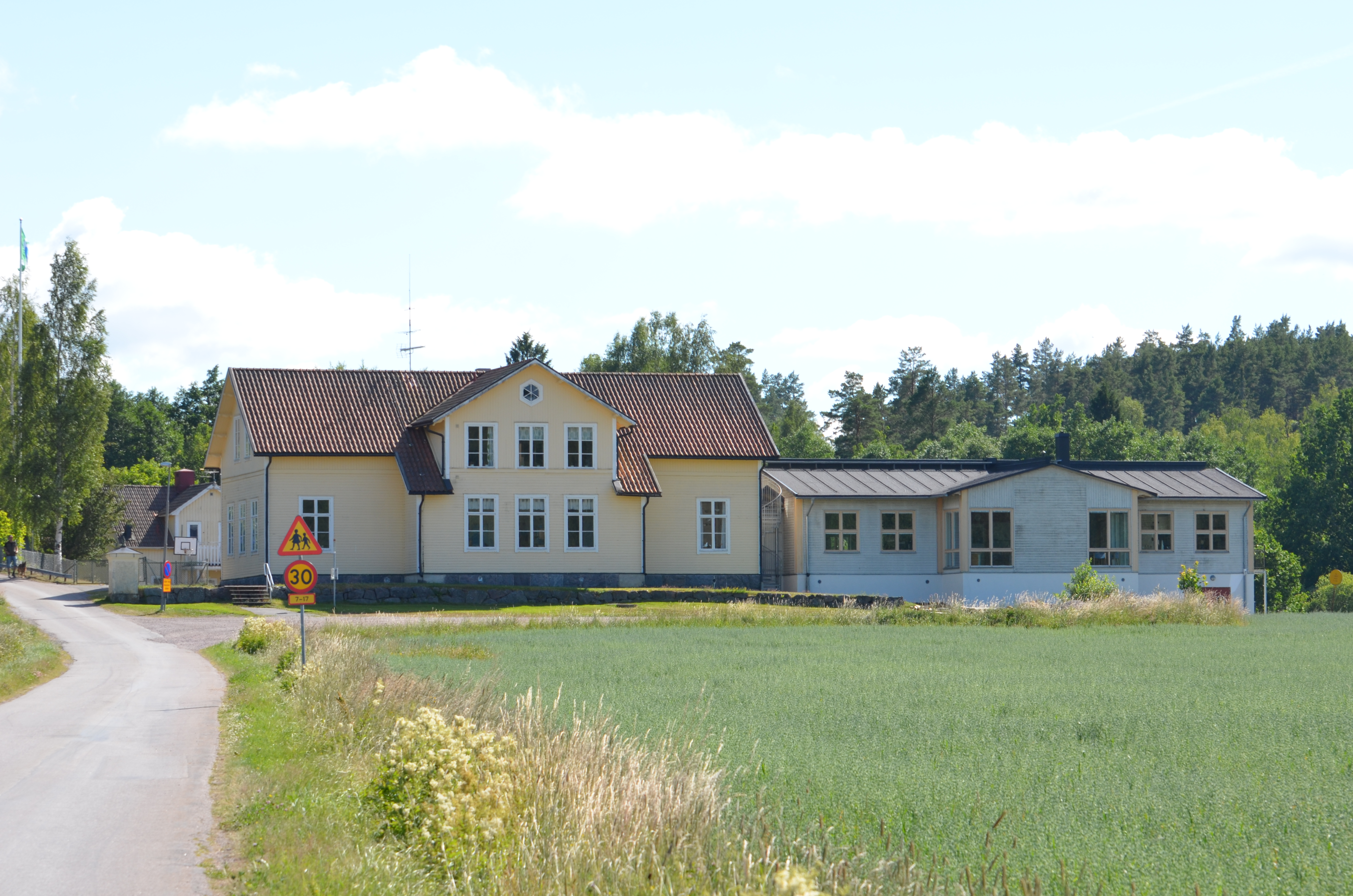 Sankt Anna skola, Söderköping Municipality, Sweden